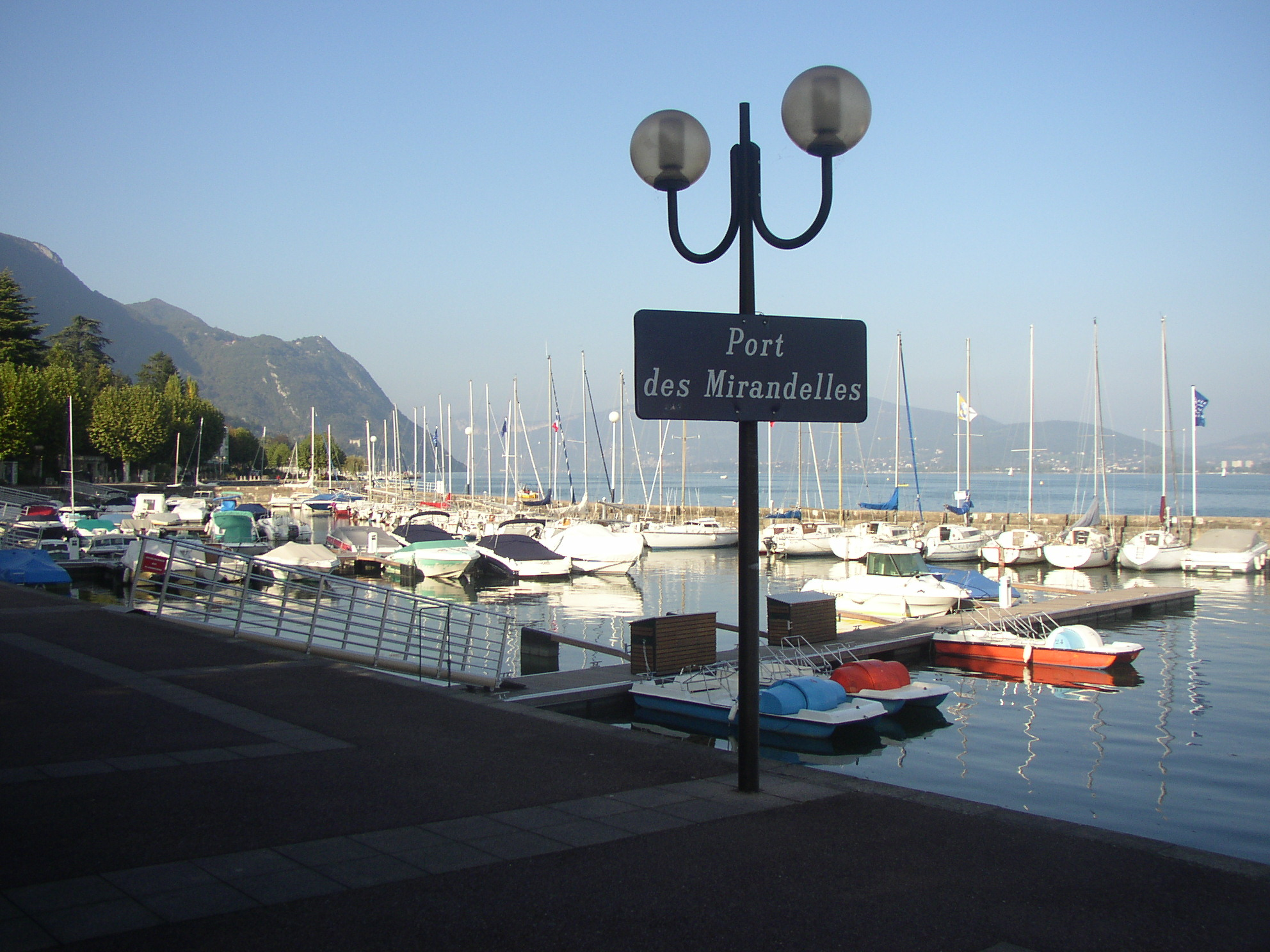 The Mirandelles little harbour of the city Le Bourget-du-Lac in Savoie, France.